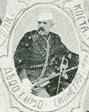 Portrait of IMARO member Dyado Simo from Silistra